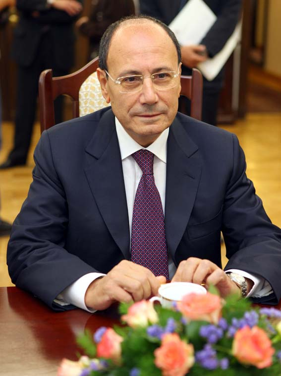 Renato Schifani